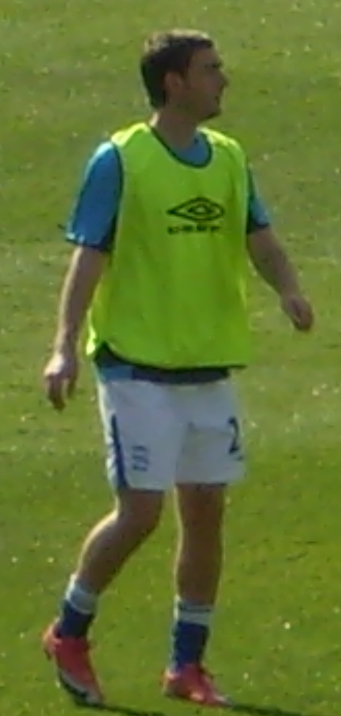 Irish footballer Jay O'Shea of Birmingham City F.C. before the Premier League match against Stoke City F.C. at St Andrew's, August 2009